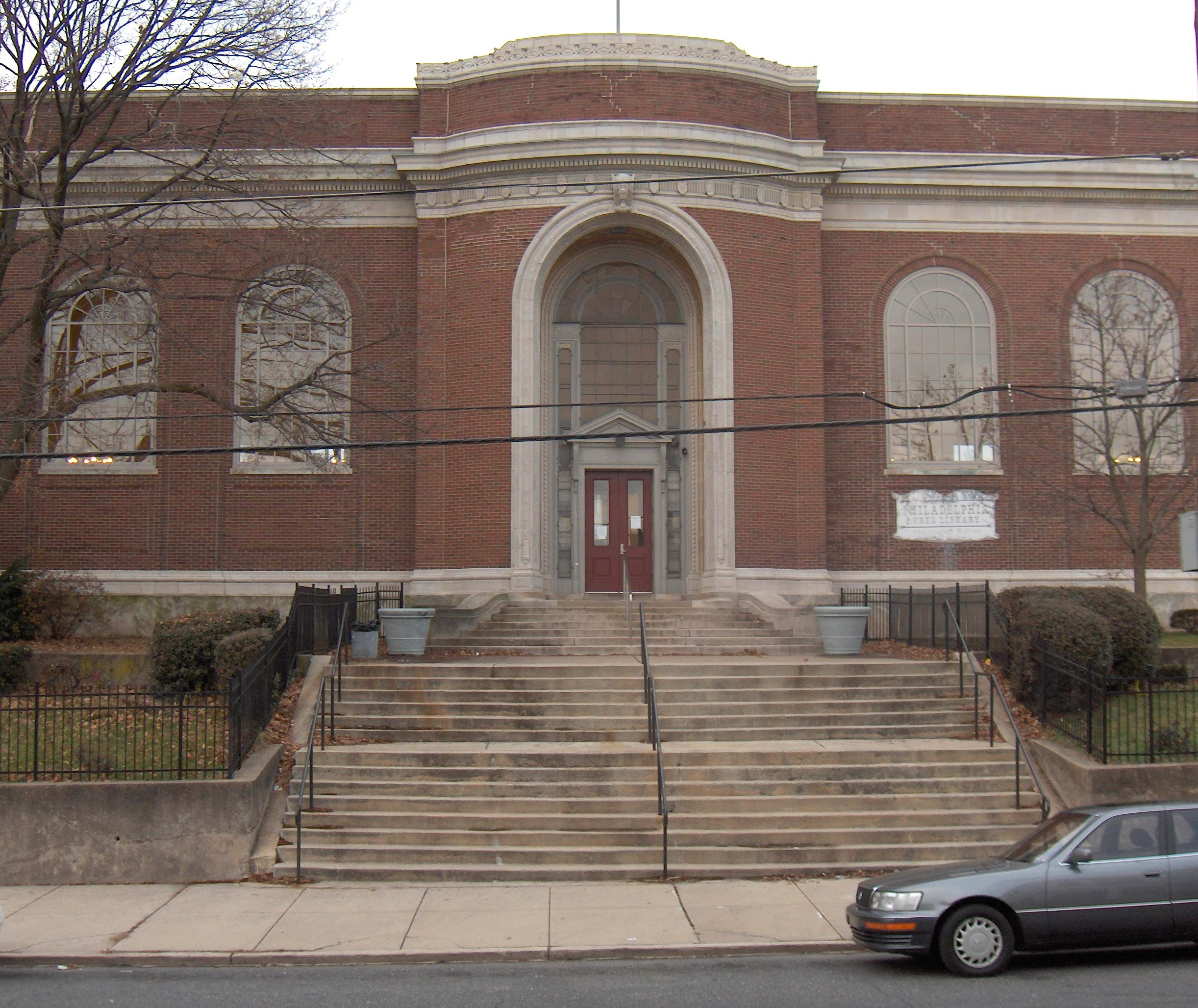 Free Library of Philadelphia, Haddington Branch Library, 446 North 65th Street, Philadelphia, Pennsylvania 19151-4003 40.025356/-75.0452300